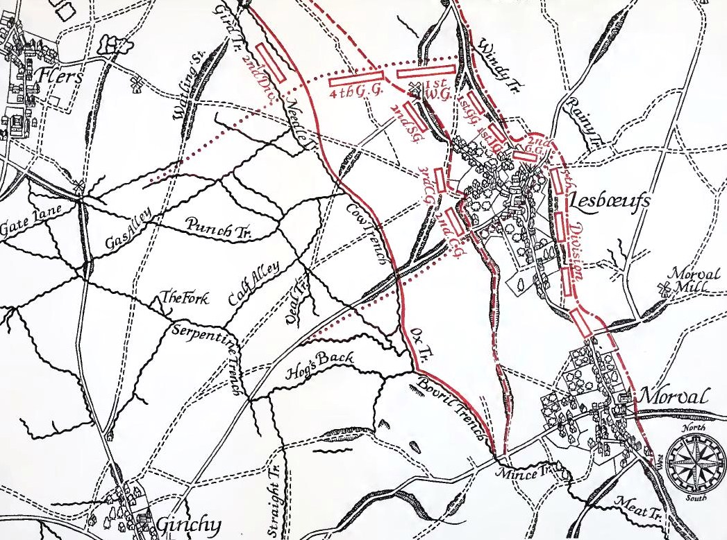 Diagram of the situation around Lesbœufs after the British attack of 25 September 1916